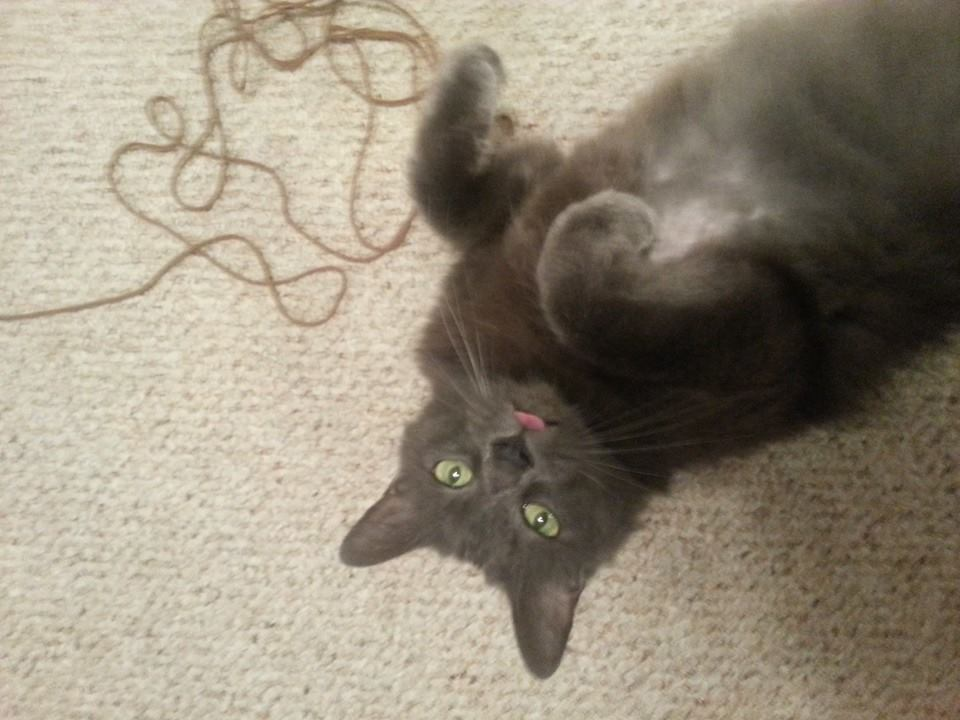 Nebelung cats are lively, playful, affectionate, good-natured, and intelligent.